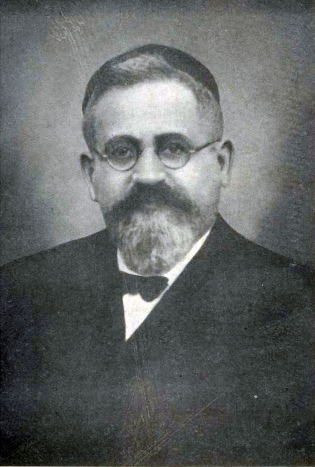 Rabbi(1881-1932) of Aschaffenburg (Bavaria)from 1909 to 1932